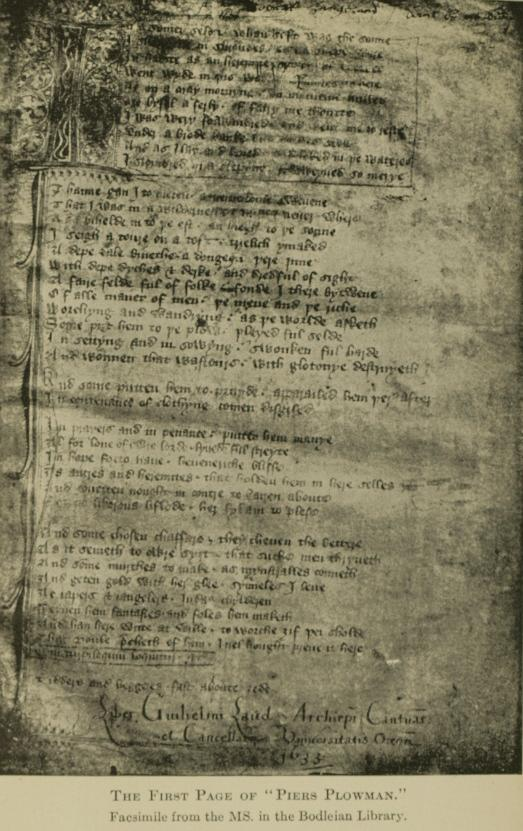 Facsimile of the manuscript of "Piers Plowman" in the Bodleian Library